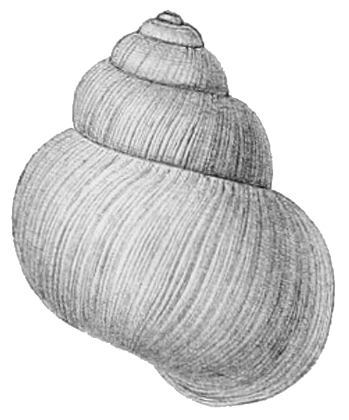 Drawing of the abapertural view of the shell of Lanistes ovum.